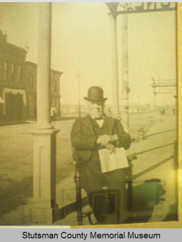 Picture of Anton Klaus, (1829-1897) former Mayor of Green Bay, WI and an important founder of Jamestown, ND. Original at Stutsman County Memorial Museum.